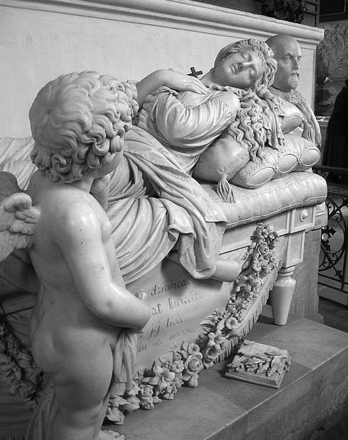 Monument to Laura Przeździecka.